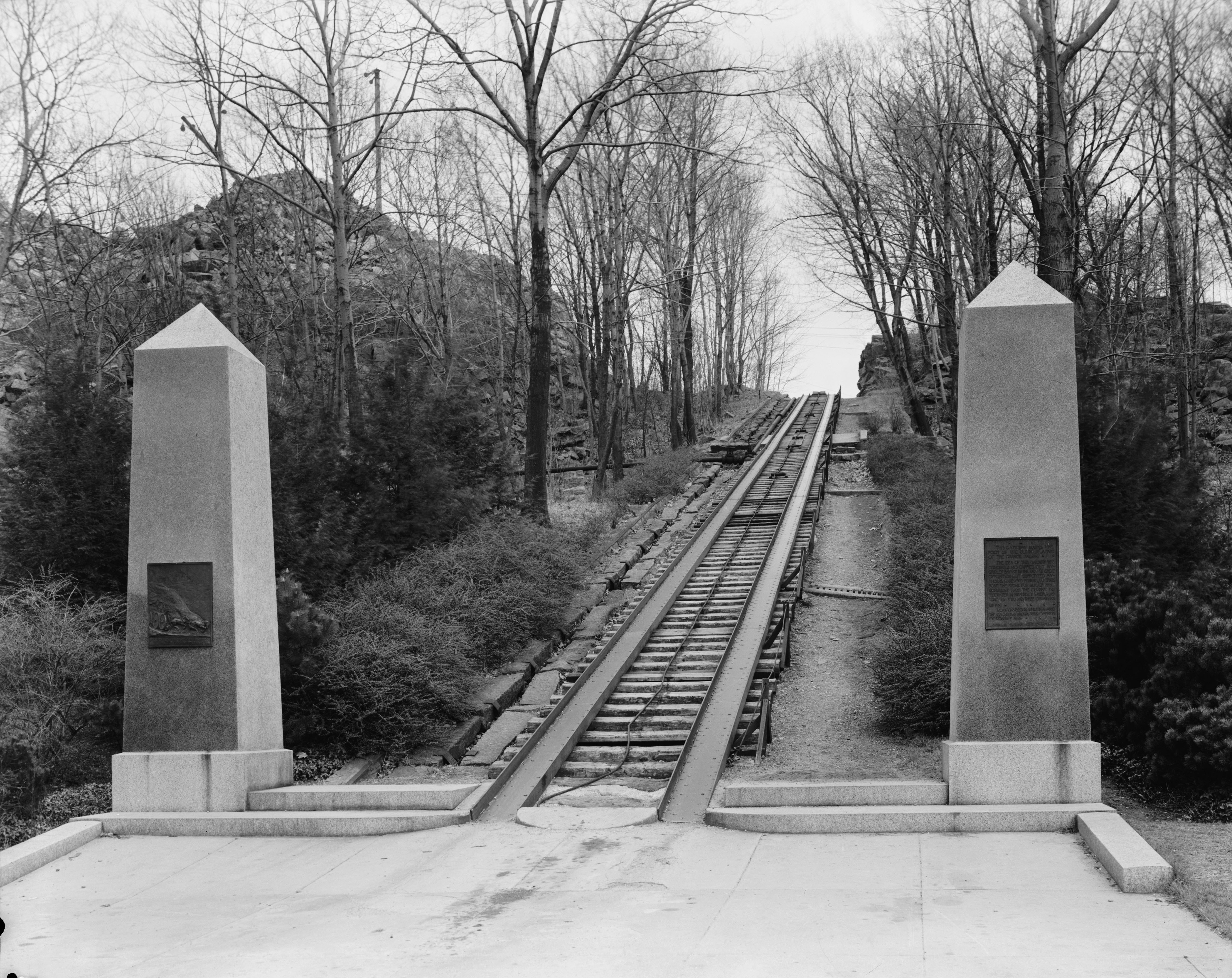 "Incline" portion of the Granite Railway, Pine Hill Quarry to Neponset River, Quincy, Norfolk County, Massachusetts